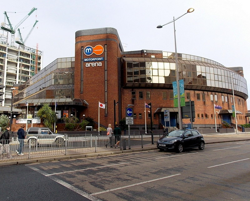 Motorpoint Arena, Cardiff. Tŷ Admiral to the left, under construction